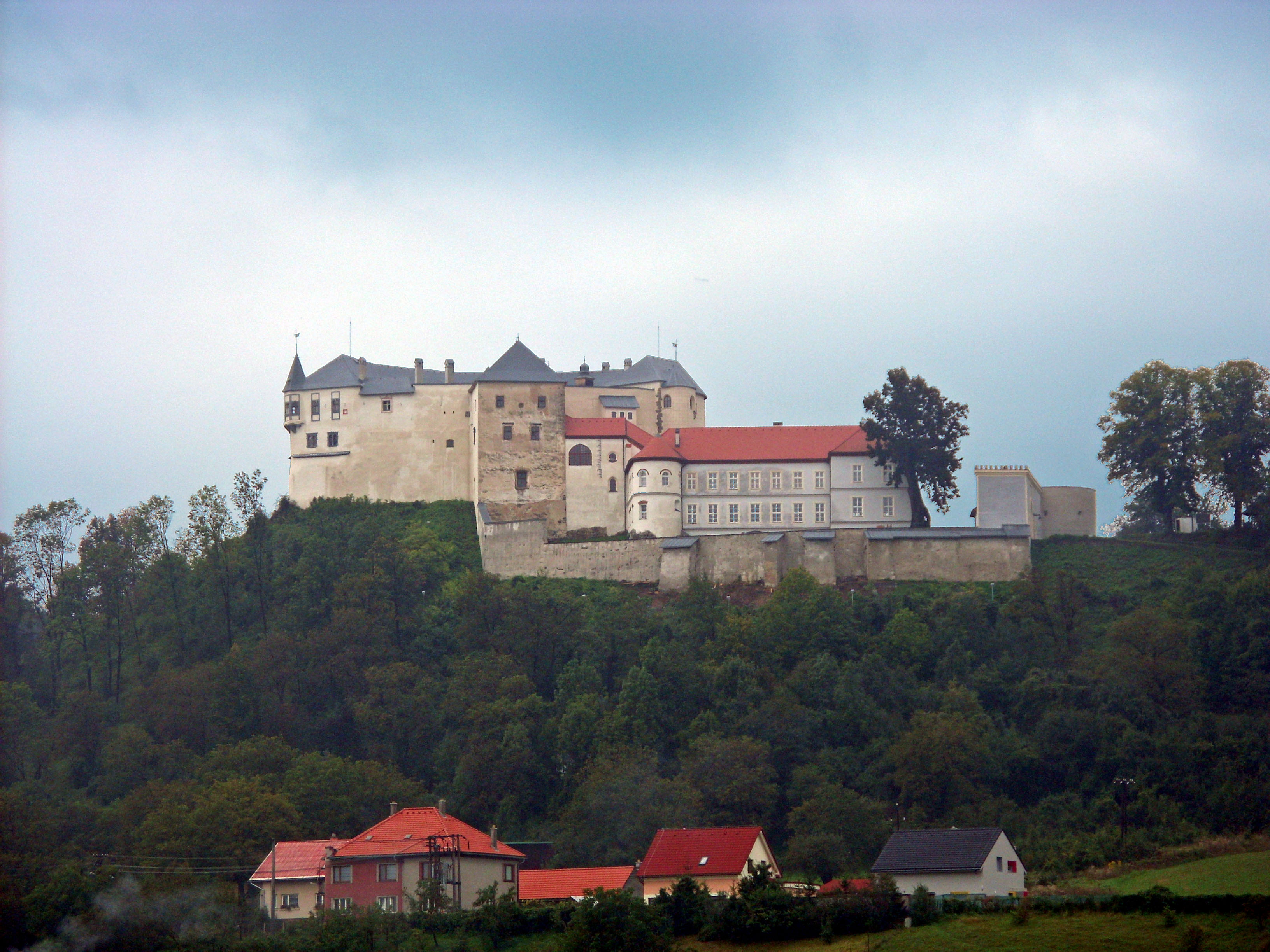 Ľupča Castle, Slovenská Ľupča, Slovakia This medium shows the protected monument with the number 601-77/1 in the Slovak Republic.